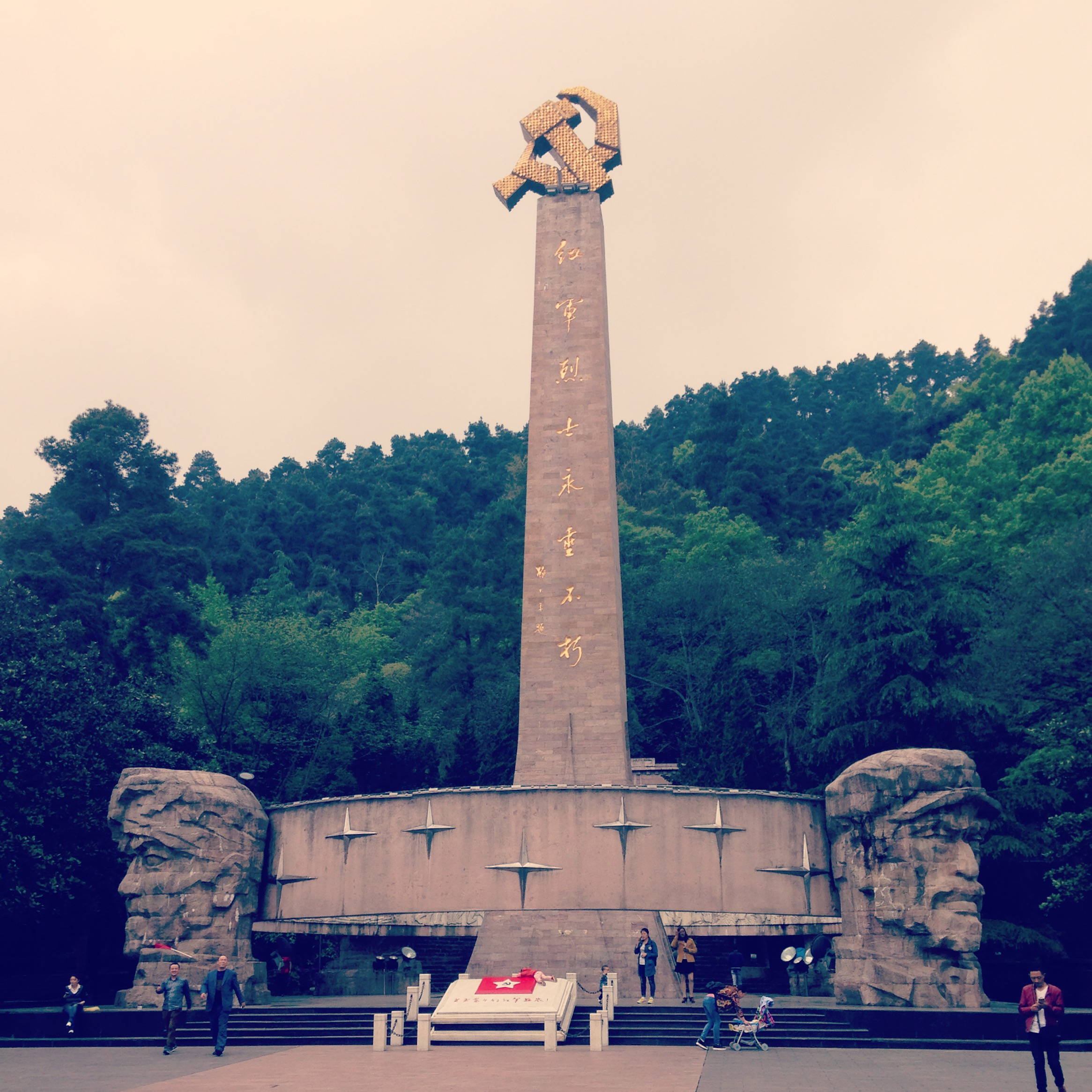 Red Army Memorial